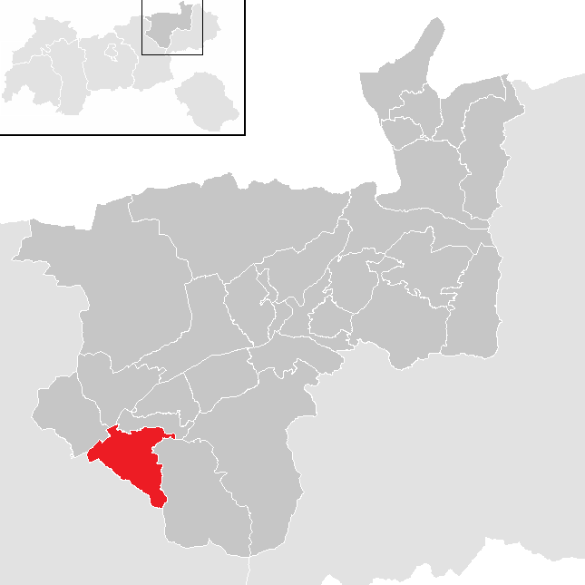 District Kufstein